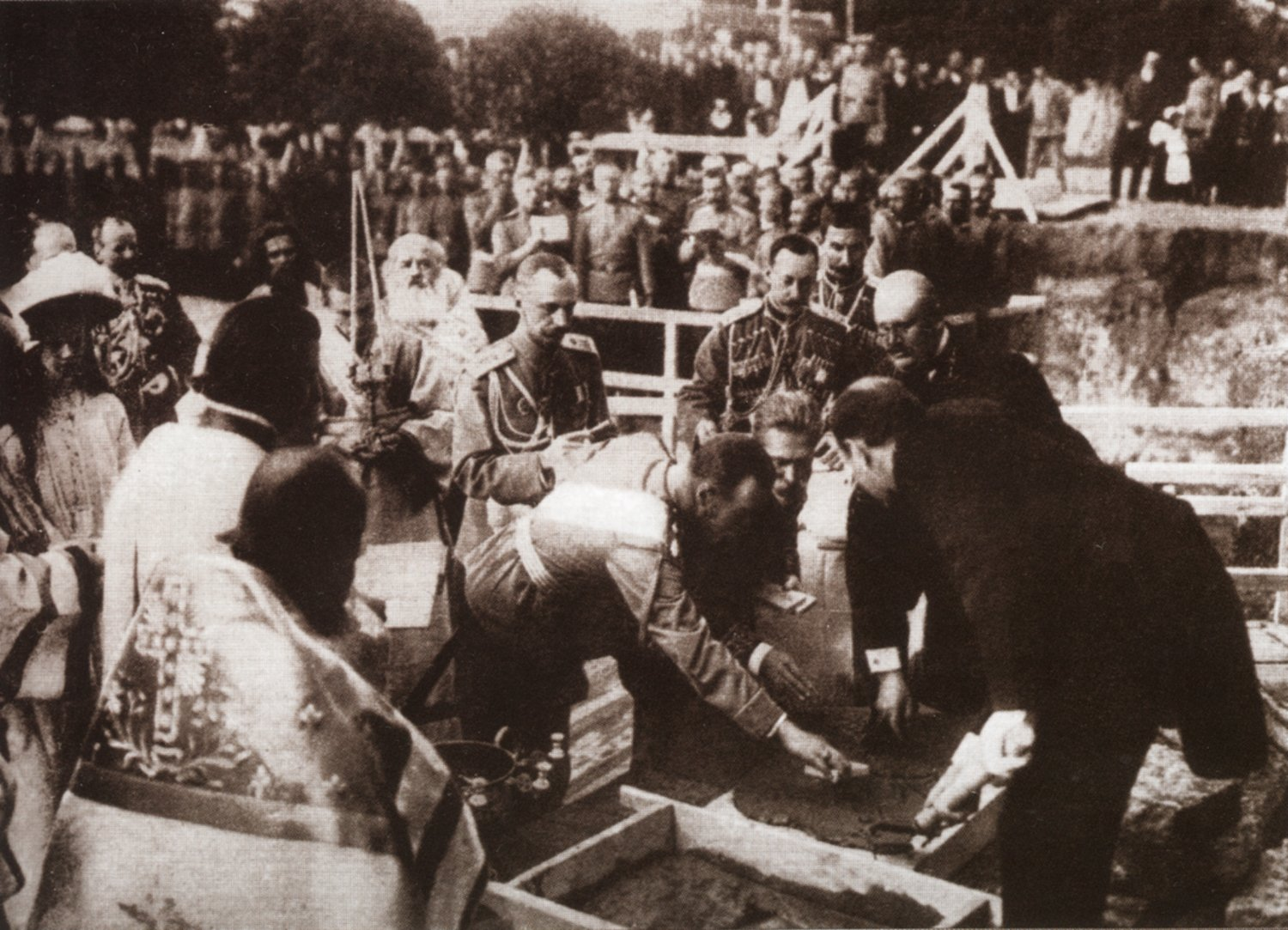 Tsarskoye Selo (Russia), Laying of the foundation stone of Feodorovsky Cathedral by Emperor Nicholas II of Russia.